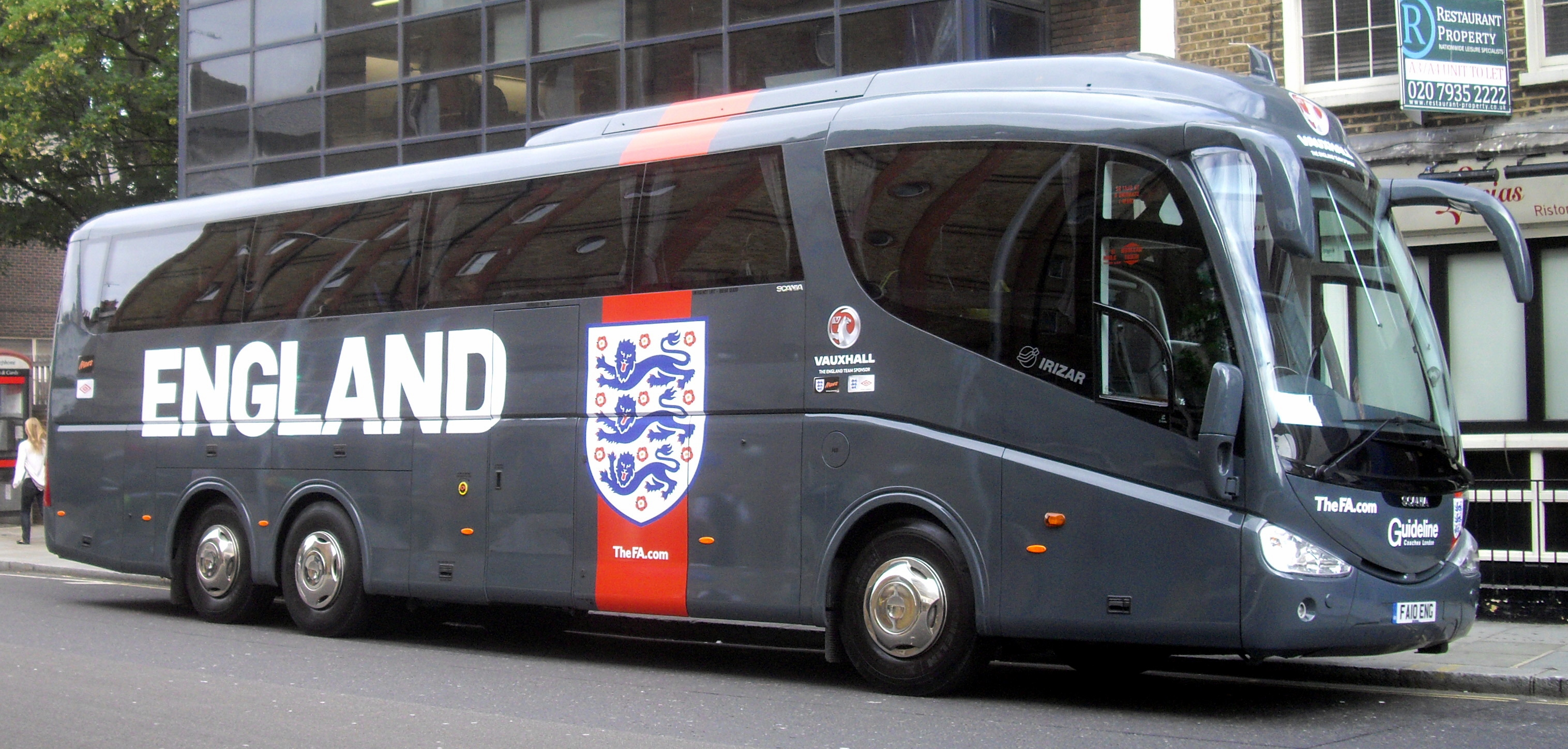 Guideline Coaches London coach (reg. FA10 ENG), a 2010 Scania K400EB with Irizar PB bodywork. It's seen here painted as the team bus for the England national football team, complete with the three lions (The Football Association's logo and the England team crest, derived from the Royal Arms of England), the FA's web address , and three of the team sponsors logos, Vauxhall, Mars and Umbro. According to their website at the time of the photo, Guideline have been providing coach services to the FA for the England senior and Under-21 teams, aswell as to their opponents, for over 25 years. Having been bought new for the purpose, the coach has been given the age appropriate '10' UK registration, but with special lettering to represent the FA and ENGland. It's pictured here early in the morning of Wednesday 8 June 2011, on the Fulham Road heading for central London, passing the Chelsea and Westminster Hospital (behind photographer). This was the day that the Under-21 squad travelled to Denmark for the 2011 European Under-21 championship tournament. On Sunday 5 June 2011 the team had beaten the hosts Norway 2-0 in a warm up game at St Mary's Stadium on the south coast in Southampton.